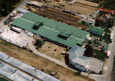 Cserkeszőlő, Miniplast Factory Hungary, aerial photography